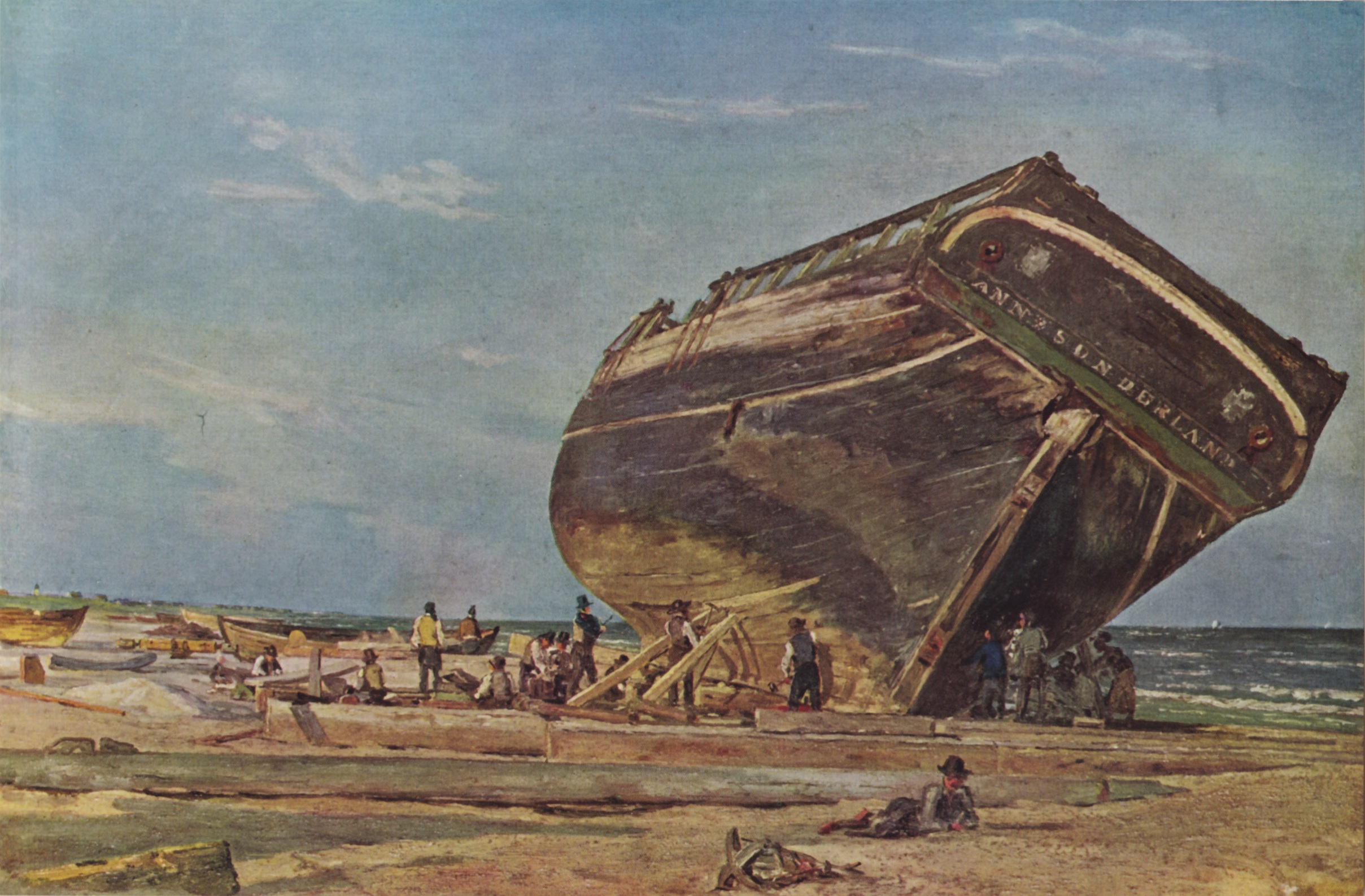 A ship at the beach of Skagen. This ship, the Ann of Sunderland, foundered at Skagens Rev, November 28 1846.